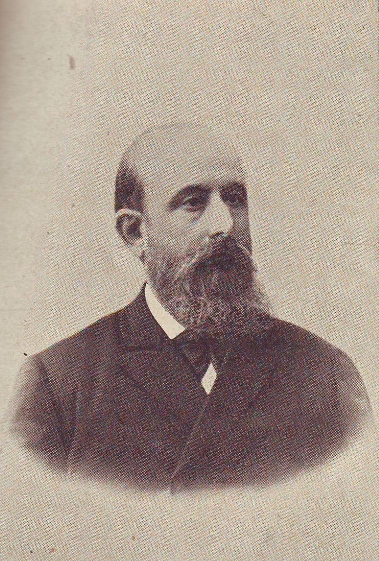 A photograph of Arsa Pajević (1840-1905), a Serbian publisher, bookseller and printer. Srpski (latinica): Fotografija Arse Pajevića (1840-1905), srpskog izdavača, knjižara i štampara.